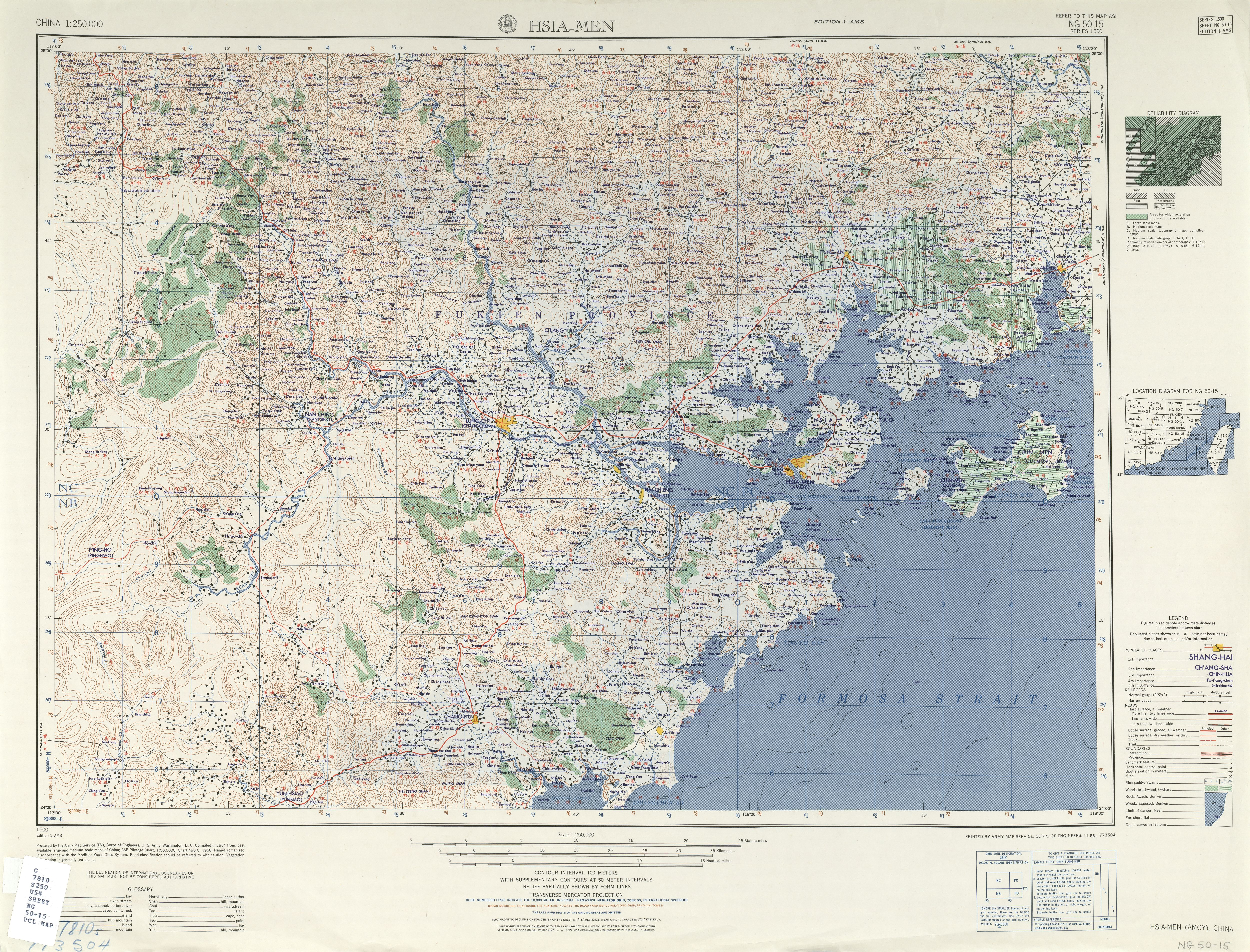 Map of Amoy and Surroundings 1954